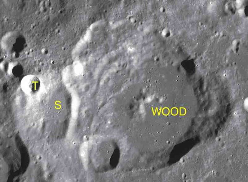 Part of the chart LAC-35 used for the presentation